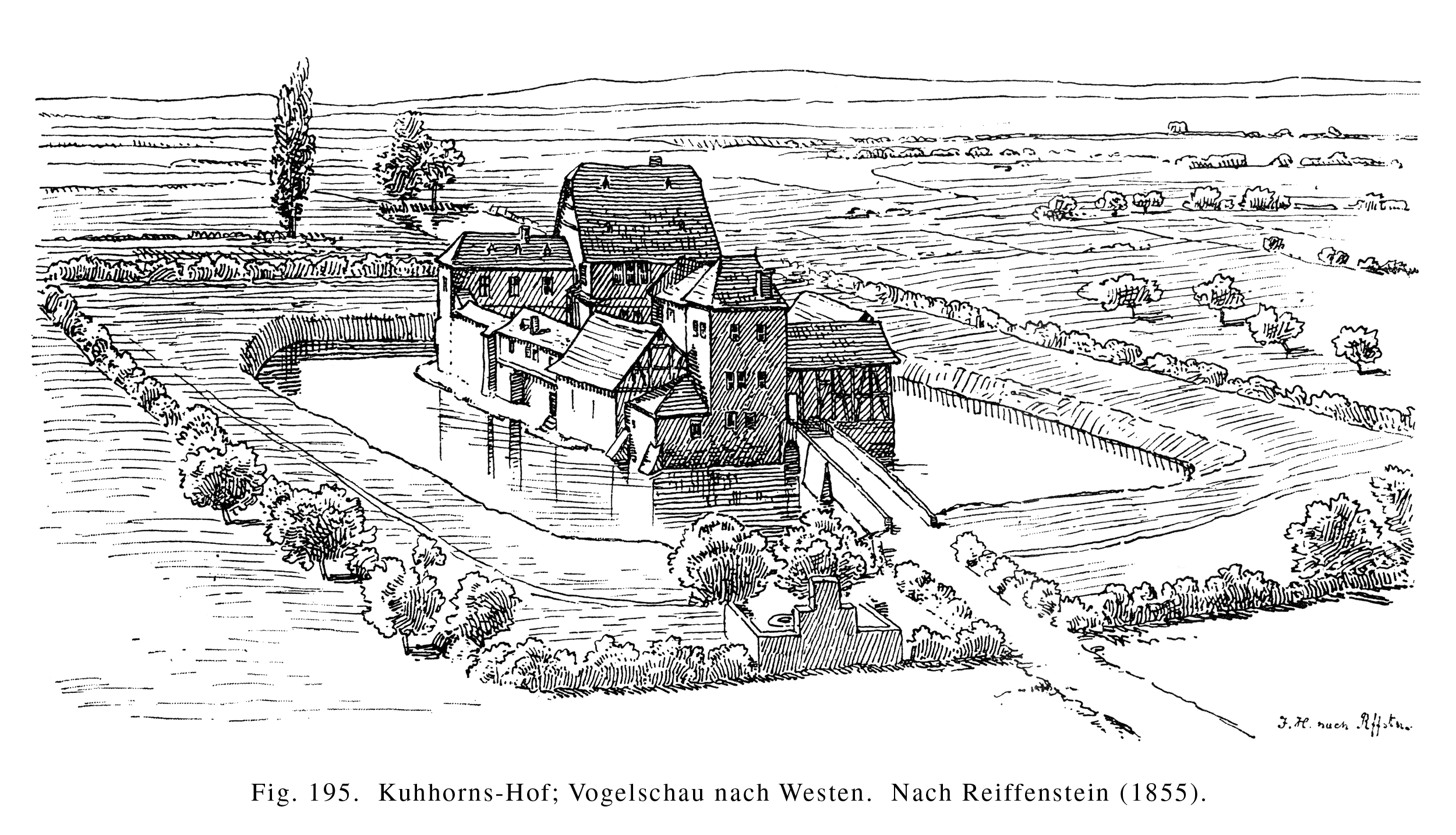 Frankfurt on the Main: Kuehhornshof, bird's eye view to the west